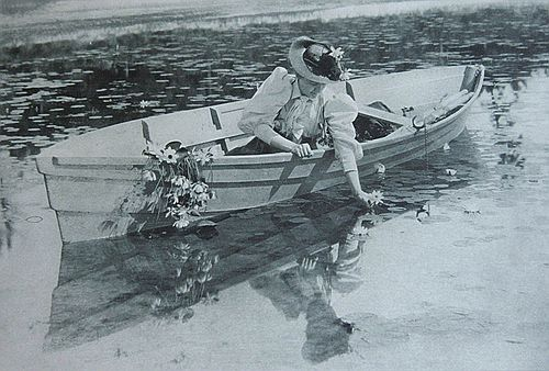 Summer Days